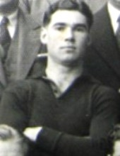 Photo of Col McLean taken before 1949